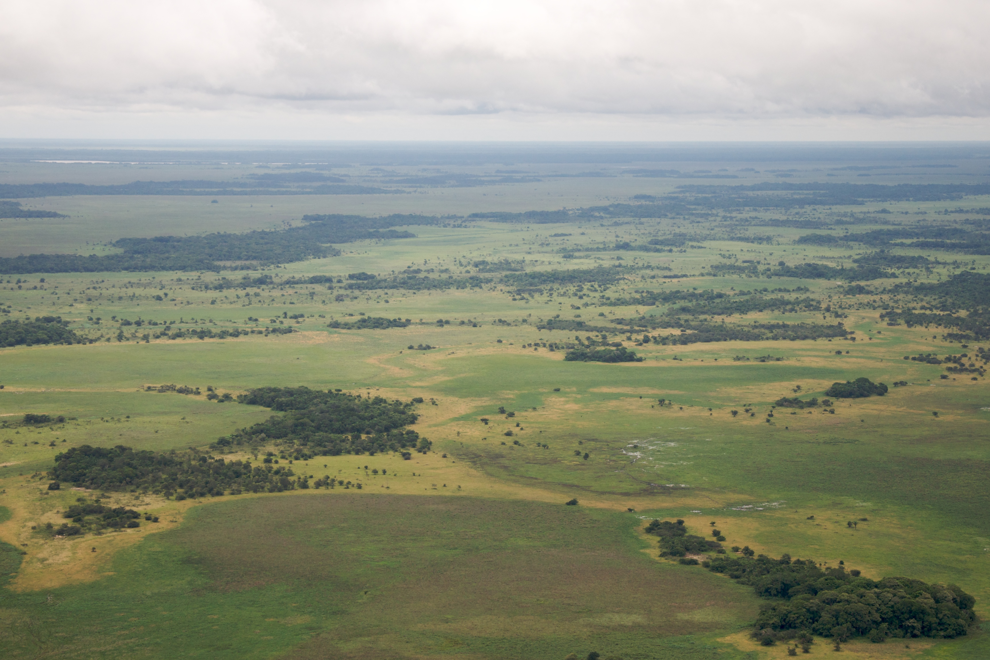 The Beni savanna is an important ecoregion in Bolivia.